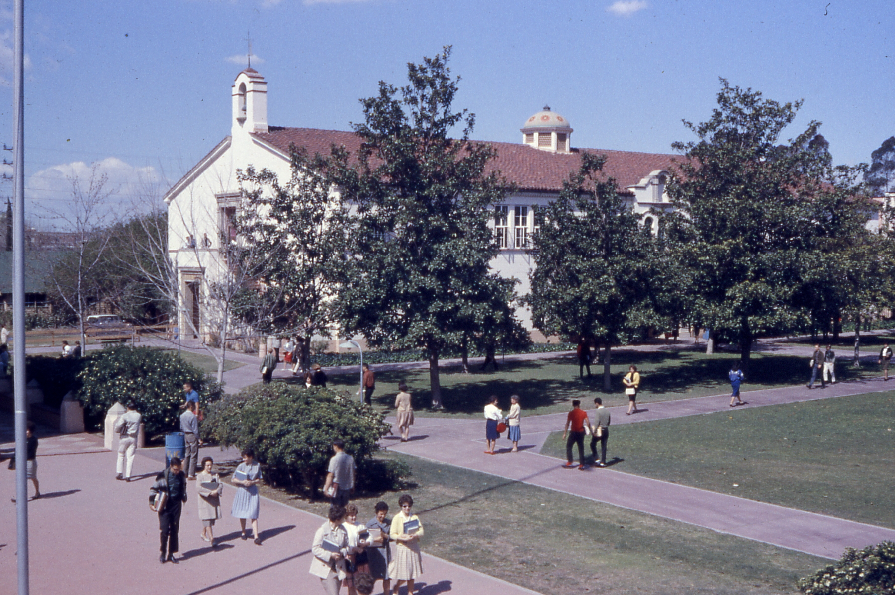 Additional view of the interior campus of Fullerton Junior College. Taken with a 35mm Exakta VX, using Ektachrome slide film.